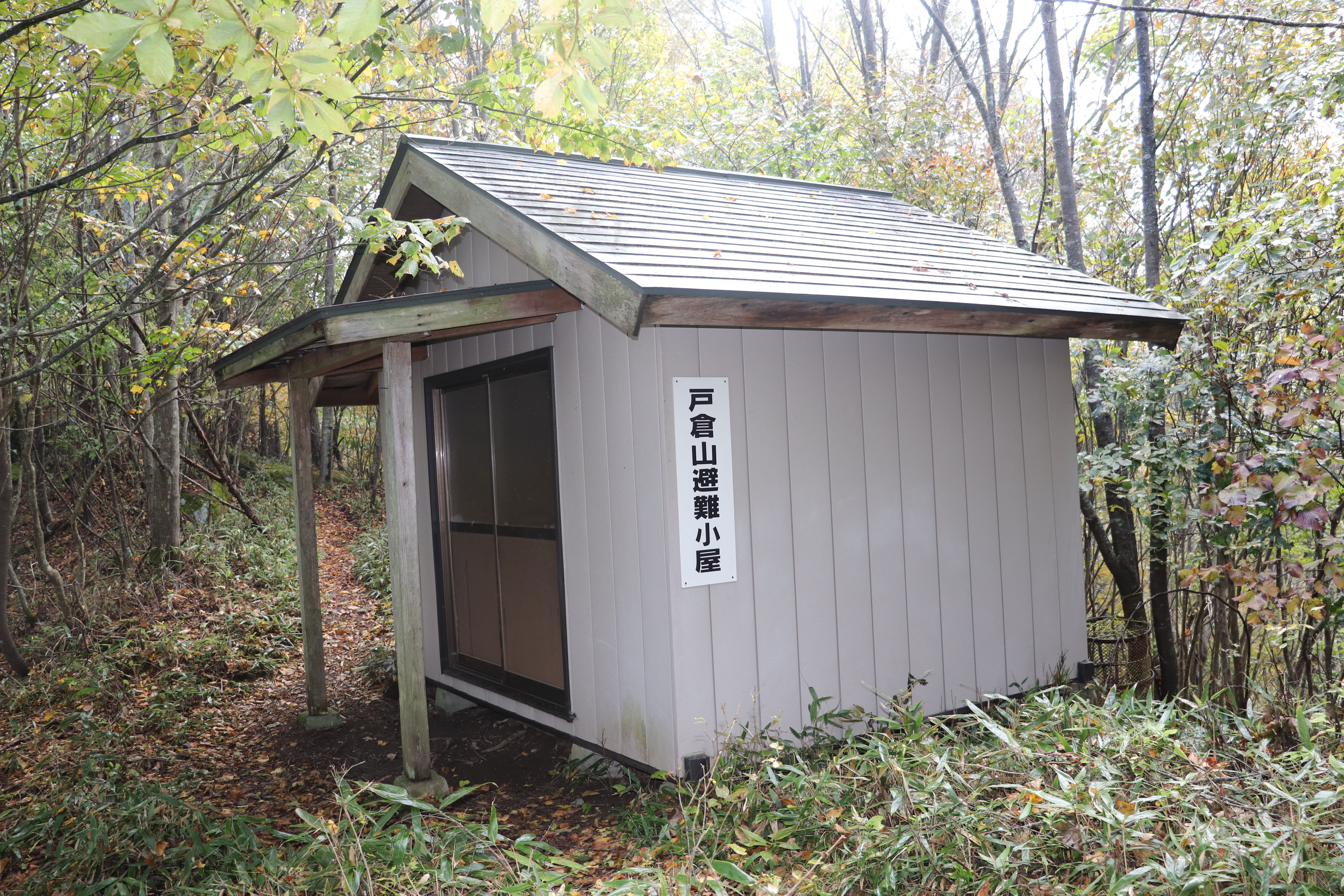 Tokurayama Hinangoya in Mount Tokura, Ina Mountains, Ina and Komagane, Nagano Prefecture, Japan.